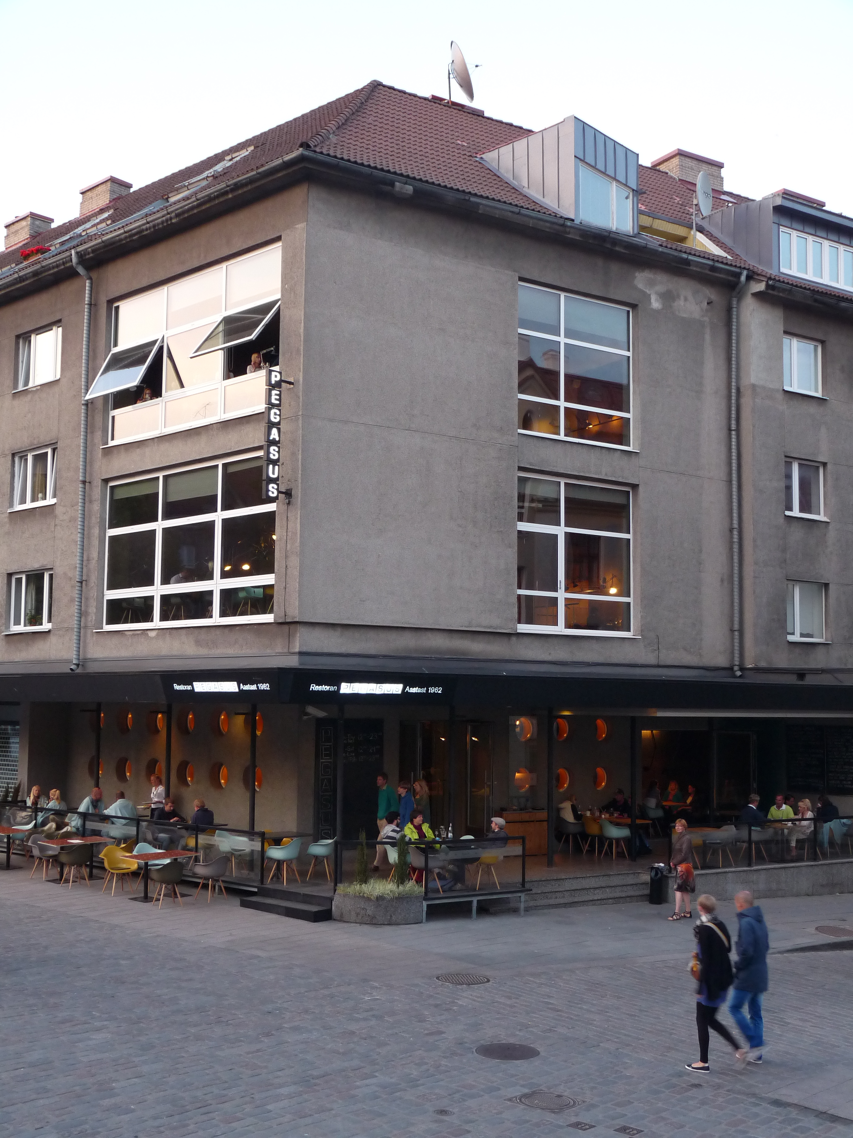 Restaurant in Tallinn, Estonia